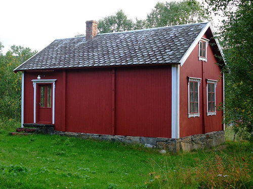 The old schoolhouse in Evenesdal